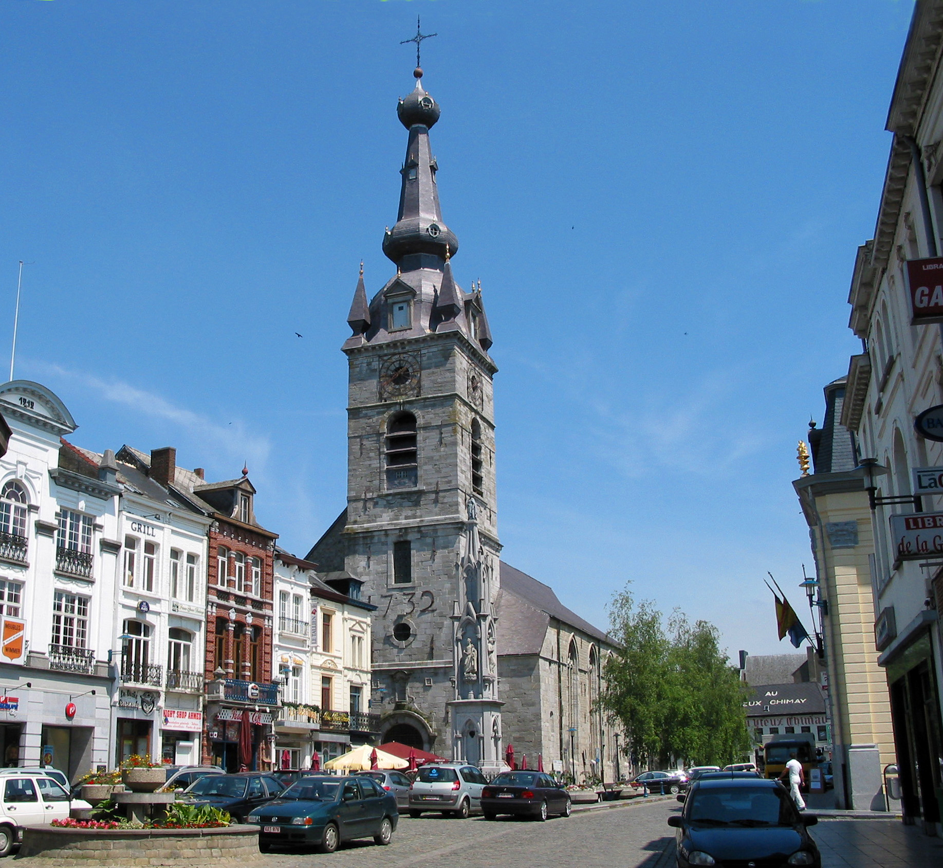 Chimay (Belgium), Grand’Place.